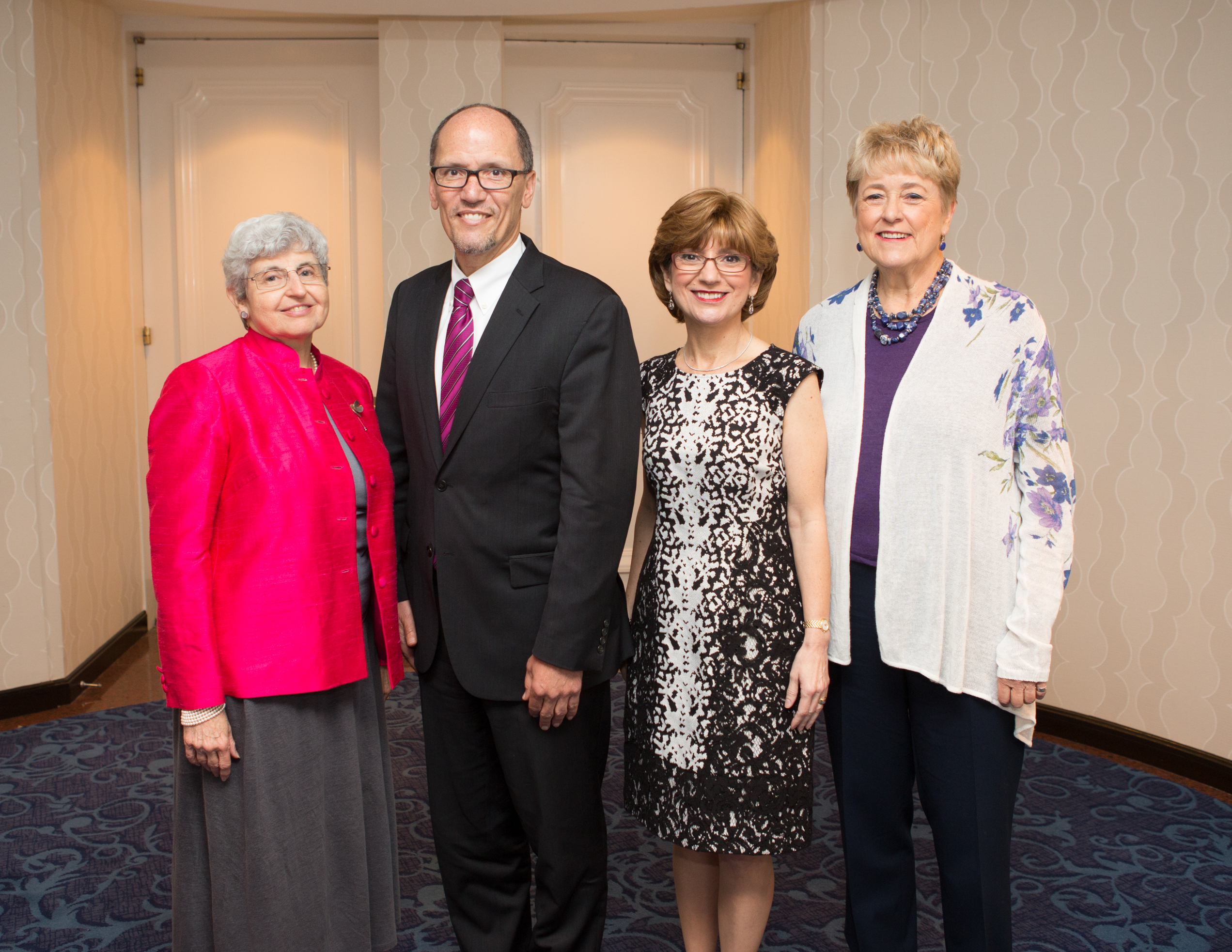 4 June 2015 – Washington, DC – U.S. Secretary of Labor Thomas Perez addresses the National Partnership for Women & Families Annual Luncheon. Judy Lichtman, Senior Advisor, National Partnership for Women & Families, Debra Ness, President, National Partnership for Women, and Ellen Malcolm, Chairwoman, National Partnership for Women and Founder and Chairwoman of EMILY's List. Official Department of Labor Photograph*** Photographs taken by the federal government are generally part of the public domain and may be used, copied and distributed without permission. Unless otherwise noted, photos posted here may be used without the prior permission of the U.S. Department of Labor. Such materials, however, may not be used in a manner that imply any official affiliation with or endorsement of your company, website or publication.